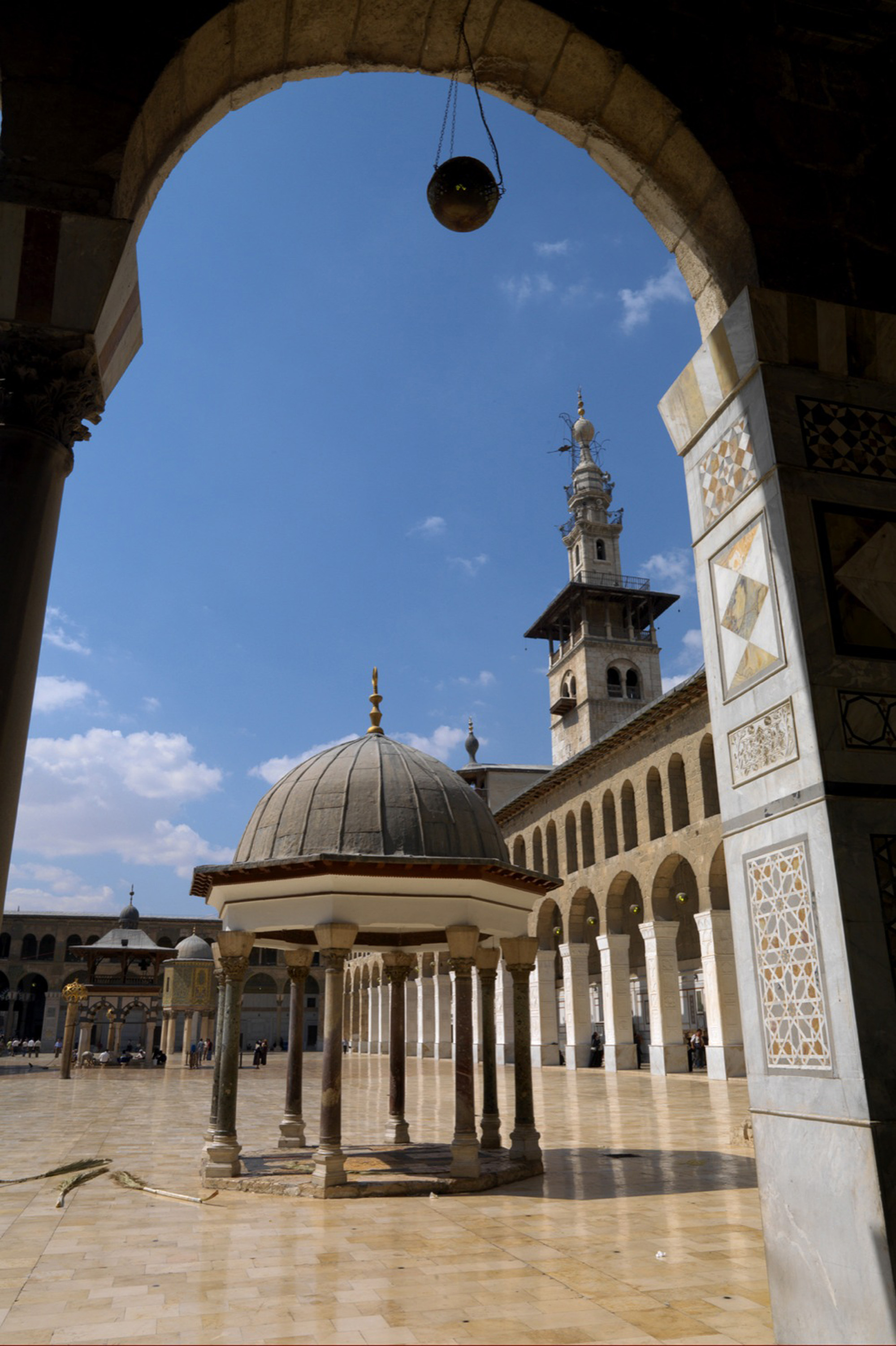 Westward view of the courtyard of the Great Umayyad Mosque in Damascus, Syria, with the Dome of the Clocks in the foreground and the Tower of the Bride on the right.